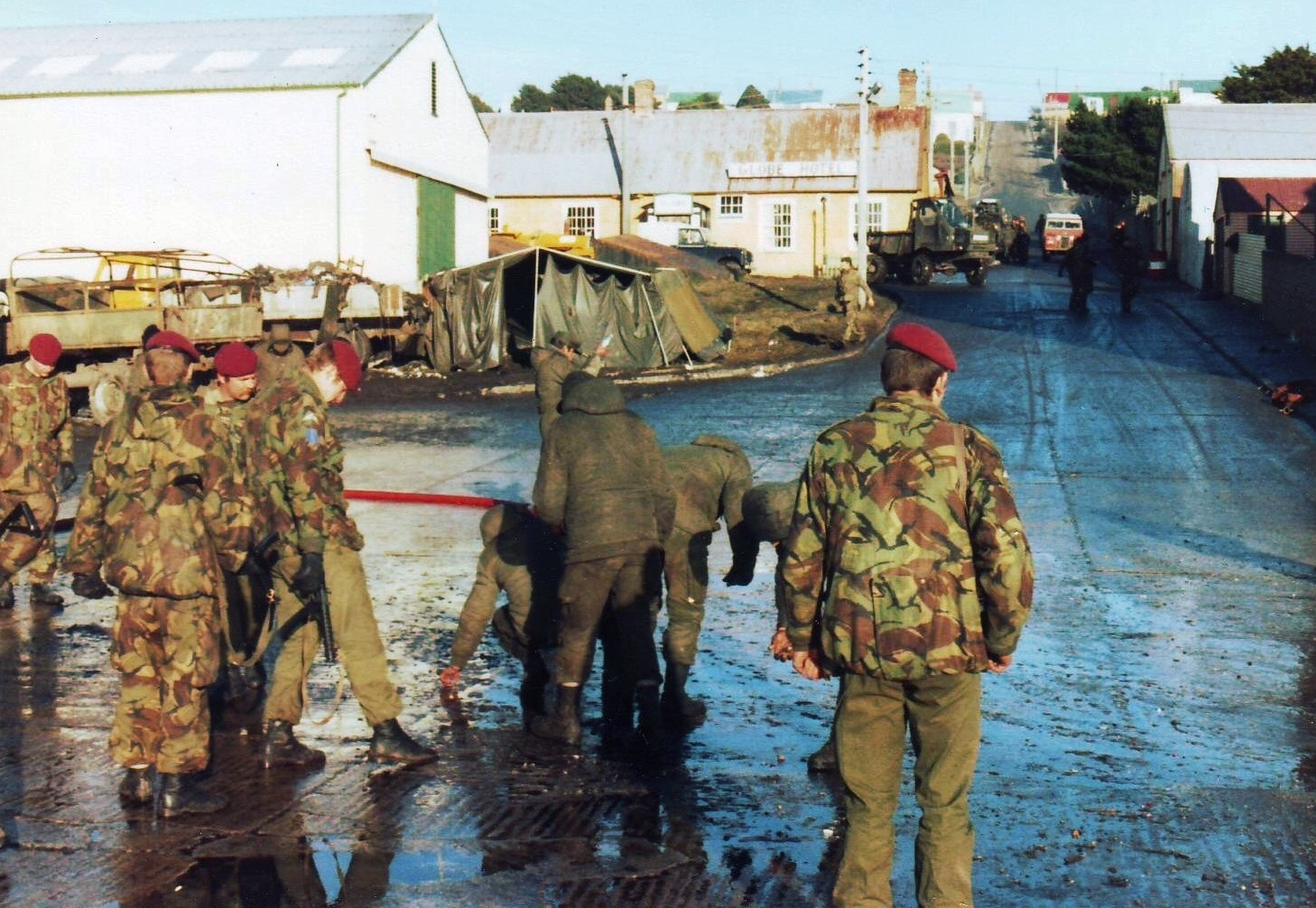 Supervising street cleaning after the war 1982